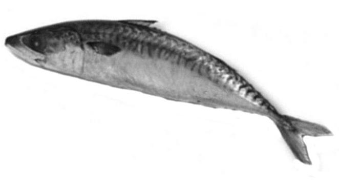 Mackerel (Scomber scombrus)